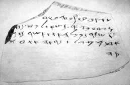 Part of a written ostracon found in Tel Lakhish, Israel. It belongs to the famous Lakhish letters. (no. 4B)